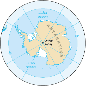 Map of Southern Ocean in Slovene.